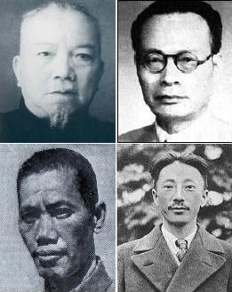 Four crucial figures in the People's Revolutionary Government of the Republic of China, 1933-1934. Top left: Li Jishen; top right: Chen Mingshu; bottom left: Cai Tingkai; bottom right: Jiang Guangnai.